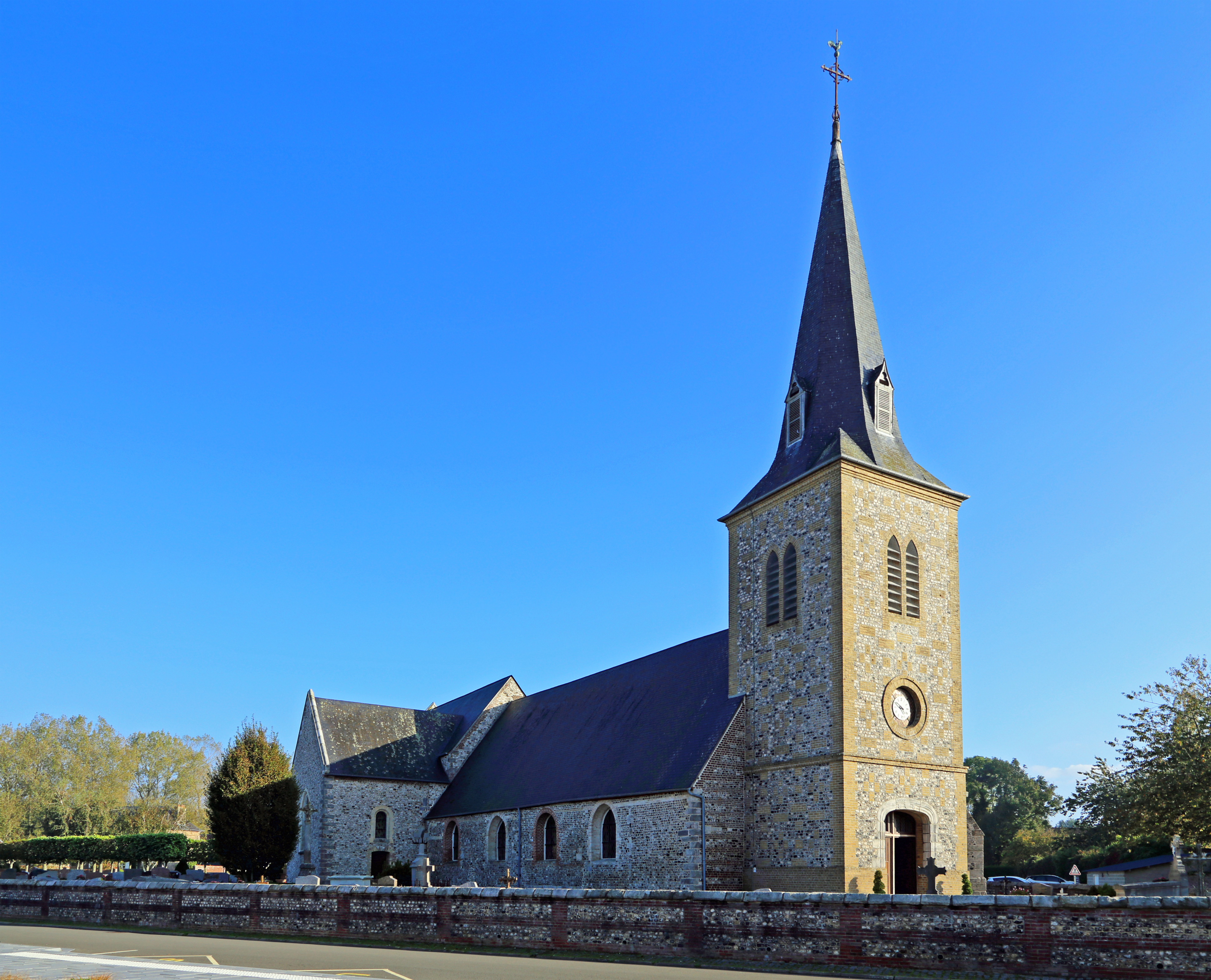 Saint-Martin-en-Campagne (municipality of Petit Caux, Seine-Maritime department, France): Saint Martin church